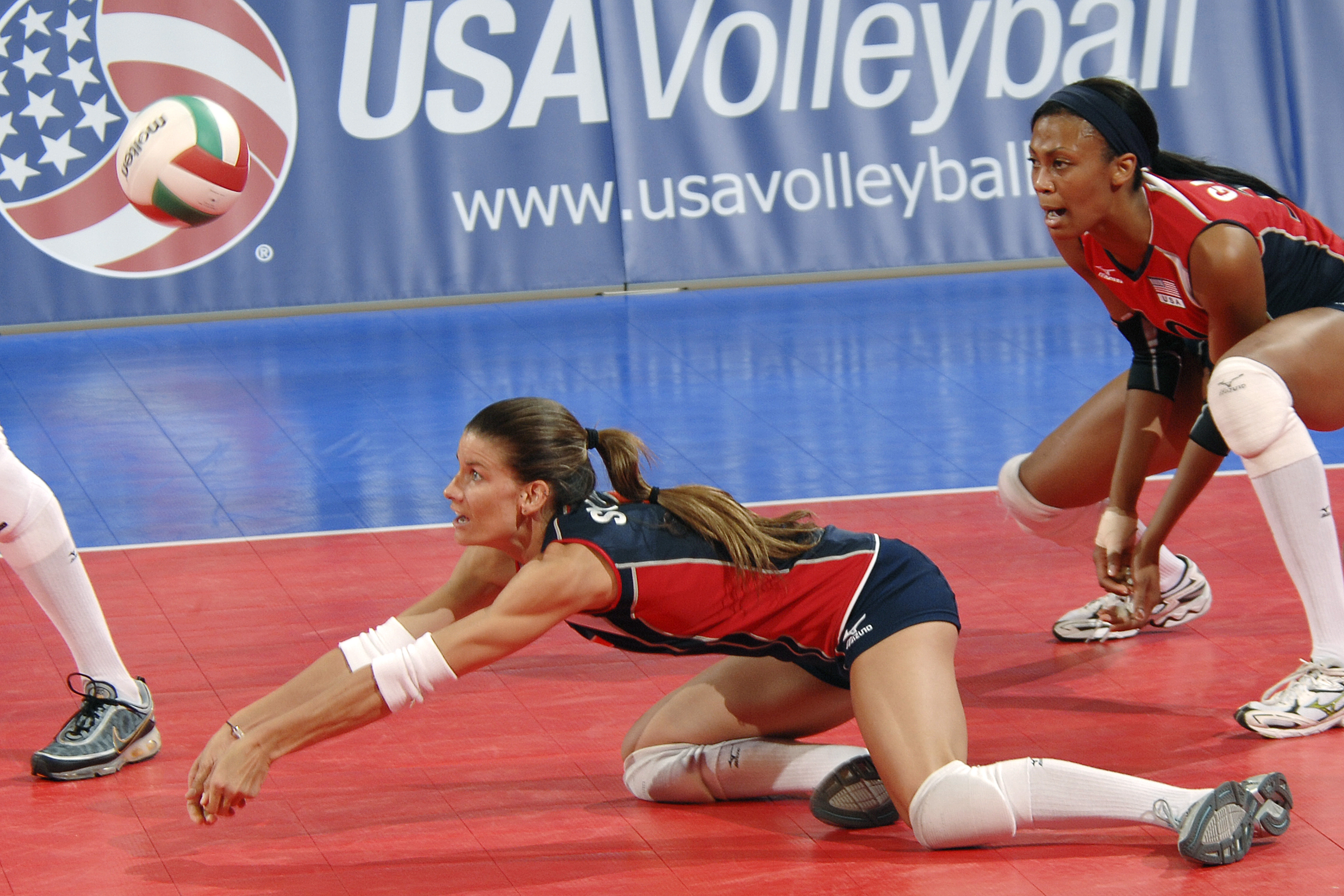 Stacy Sykora, the designated libero for the U.S. Women's National Volleyball Team, executes a pass during an exhibition match against top-ranked Brazil at Clune Arena on the campus of the U.S. Air Force Academy, Colo., June 14, 2008. Team USA is concluding a three-match 2008 U.S. Olympic Team Exhibition for Volleyball series that started June 11.